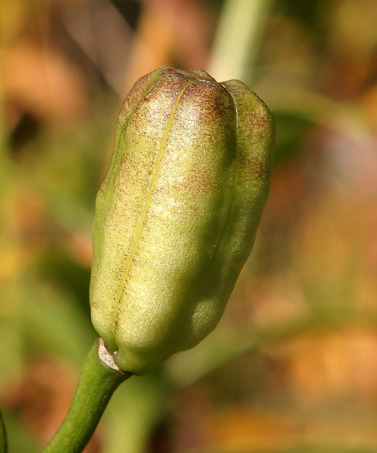 Self made image of Lilium fruit.